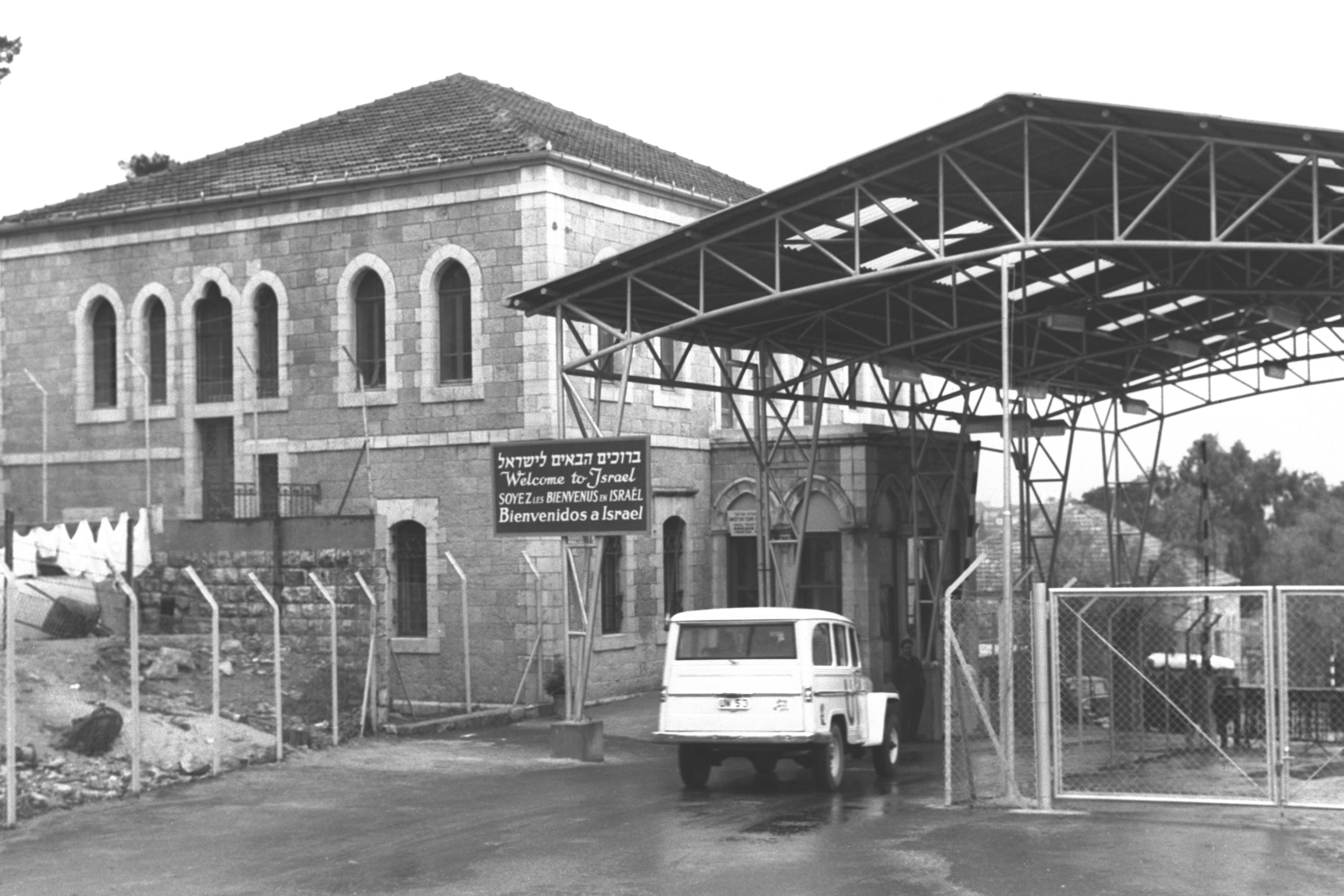 A U.N. CAR COMING FROM THE OLD CITY ARRIVING AT THE ISRAEL FRONTIER CHECK POST AT MANDELBAUM GATE IN JERUSALEM.